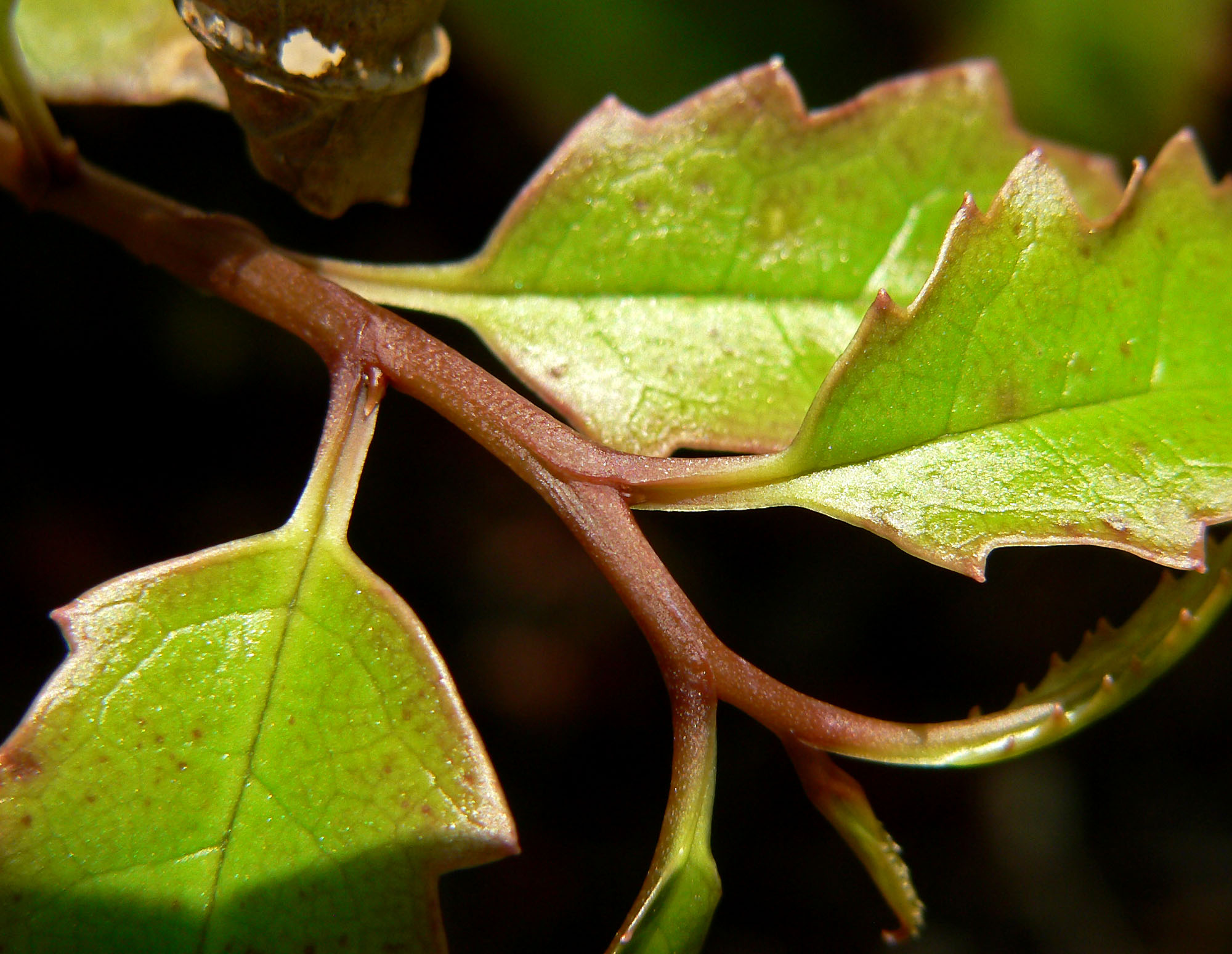 Amborella trichopoda at the University of California Botanical Garden, Berkeley, California